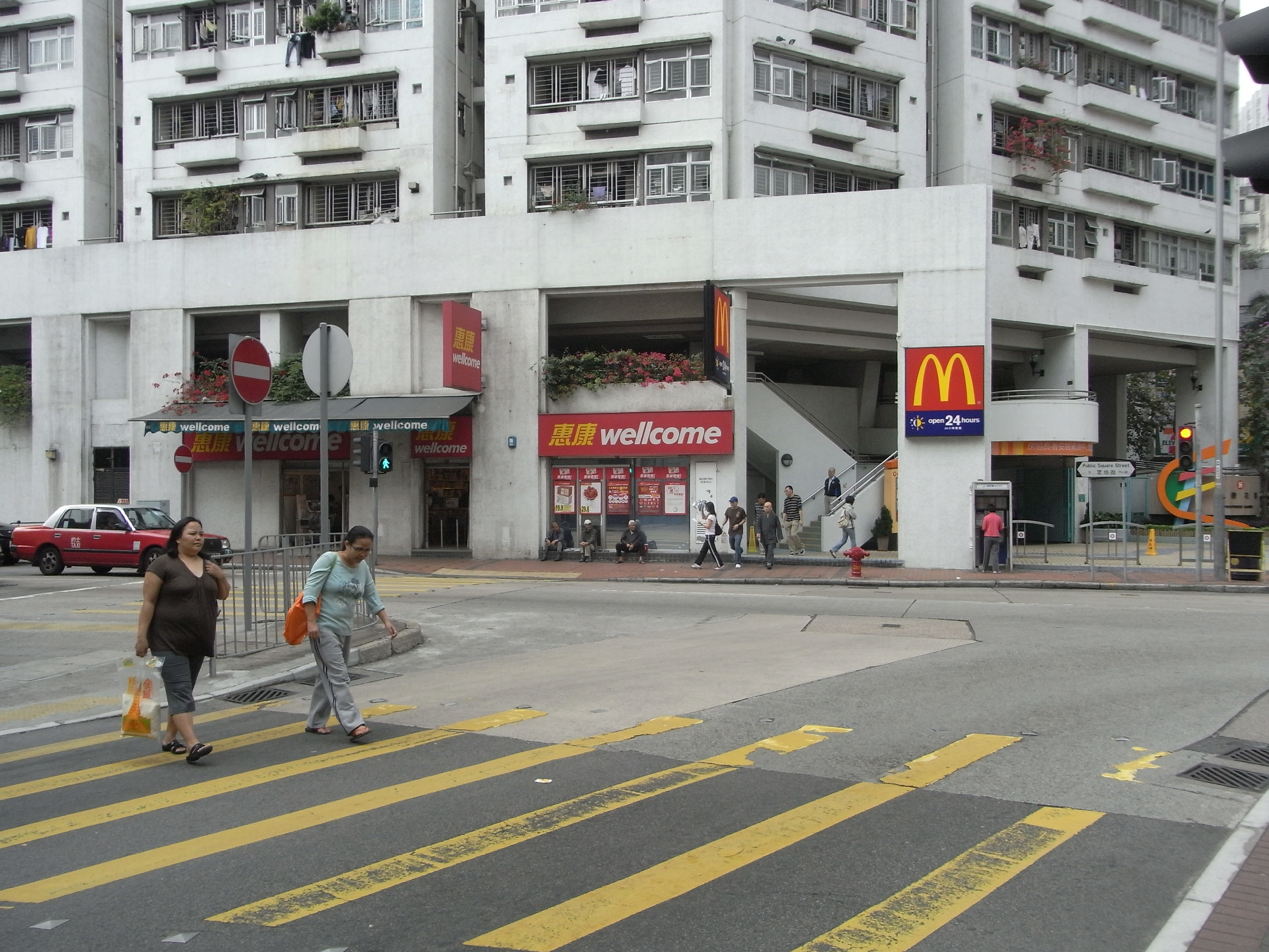 油麻地